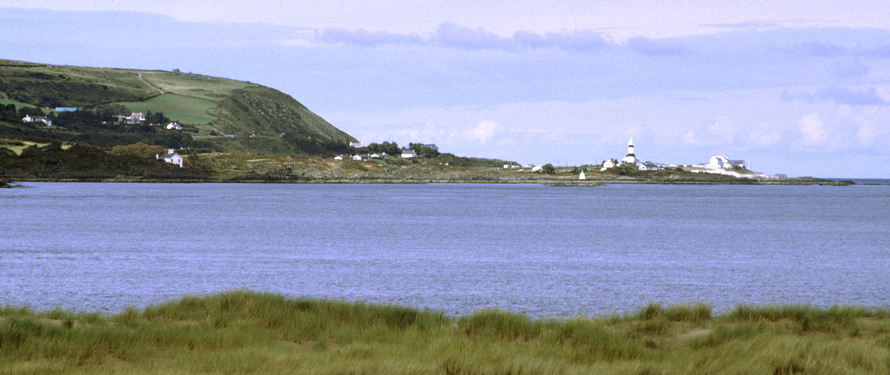 View from Magilligan Point, Co. Derry, across the mouth of Lough Foyle, to Dunagree Point and Inishowen Head, Co. Donegal, Ireland. Photo taken July 1988.